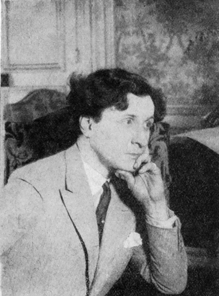 Maurice Rostand (1891-1968) was a French poet and playwright.